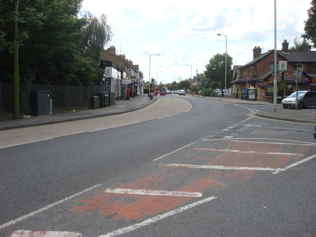 A412, Watford Road